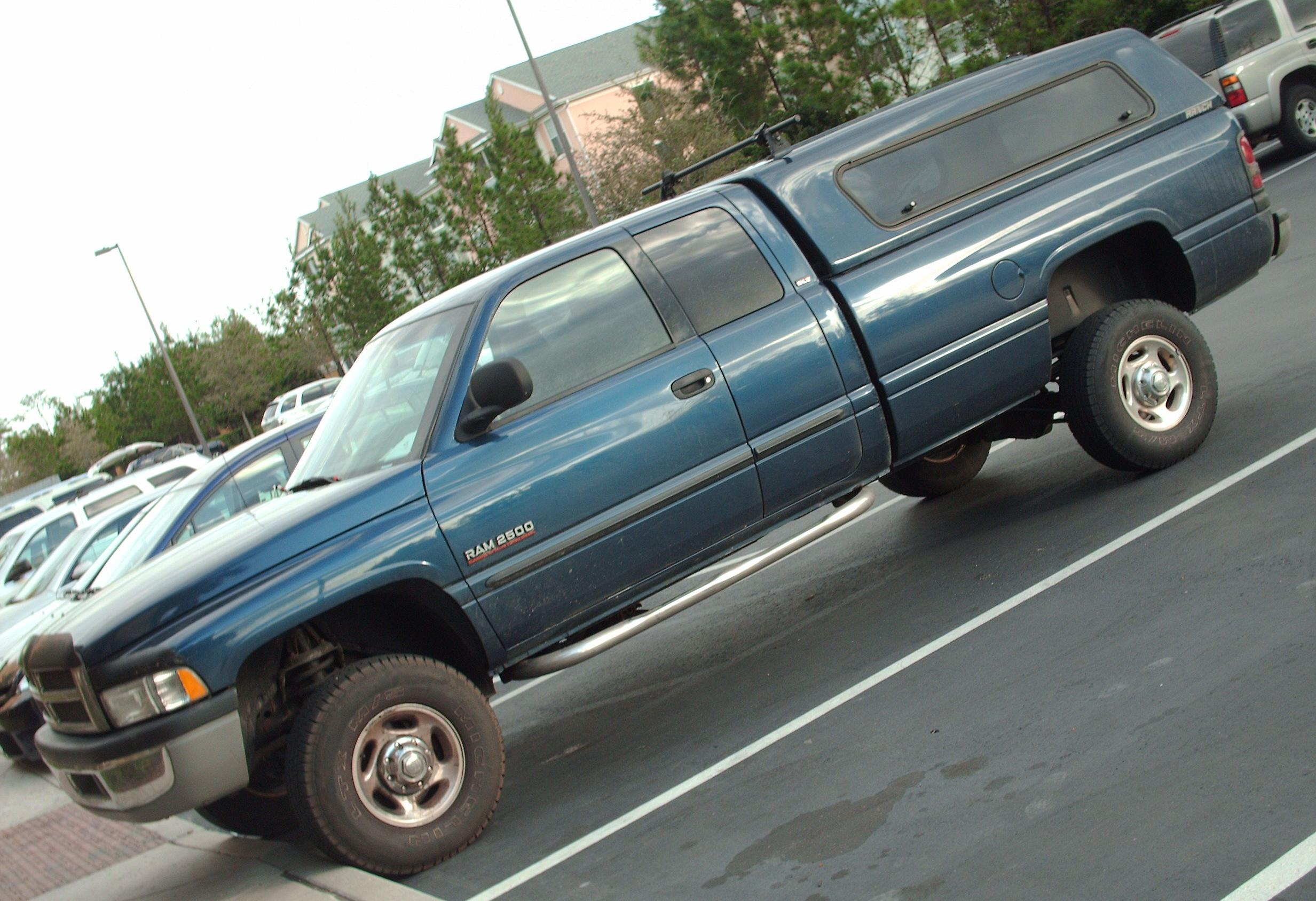 1994-2001 Dodge Ram photographed in Orlando, FL, USA.